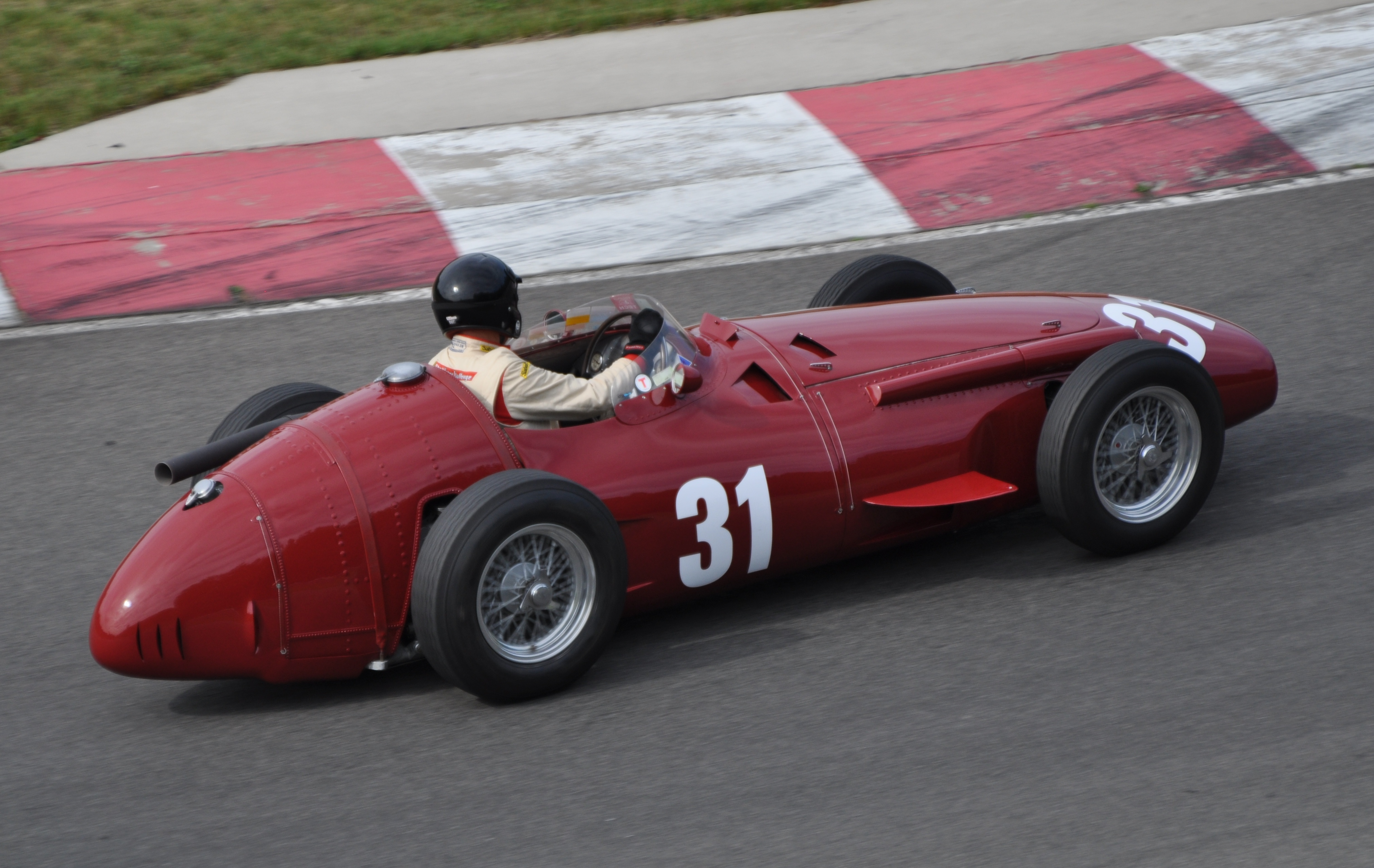 Peter Giddings hustles his Maserati 250F Formula One car through The Esses at Circuit Mont-Tremblant, during the 2010 Legends of Motorsport meeting.